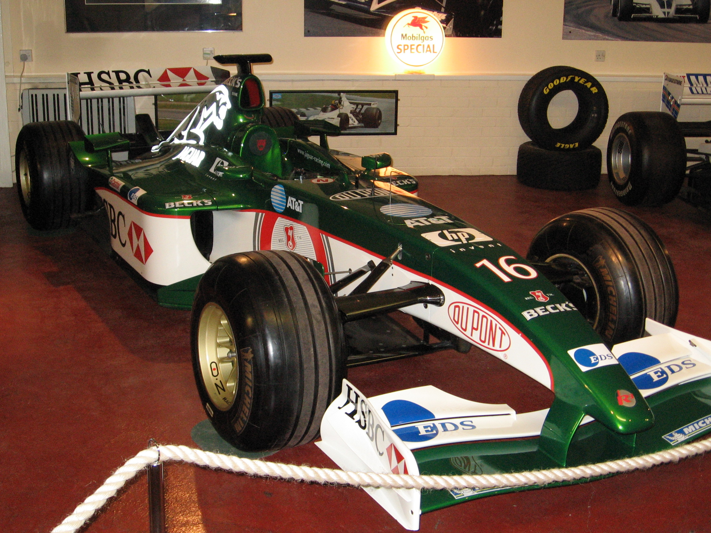 Eddie Irvine Jaguar R3 2002. Donington Motor Collection